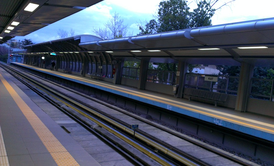 kat-amarousio